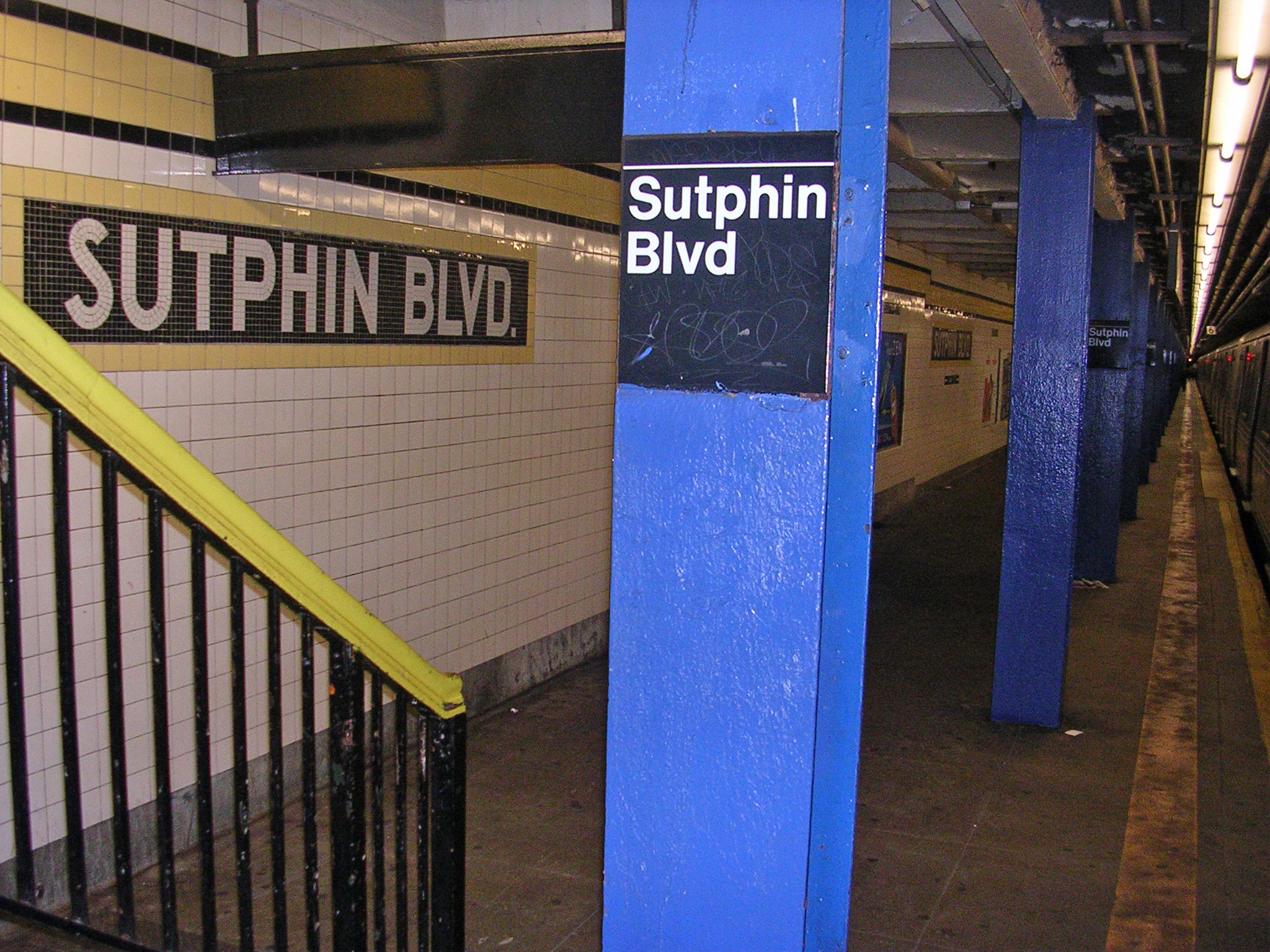 Sutphin_Blvd Subway Station by David Shankbone, January 15, 2007.